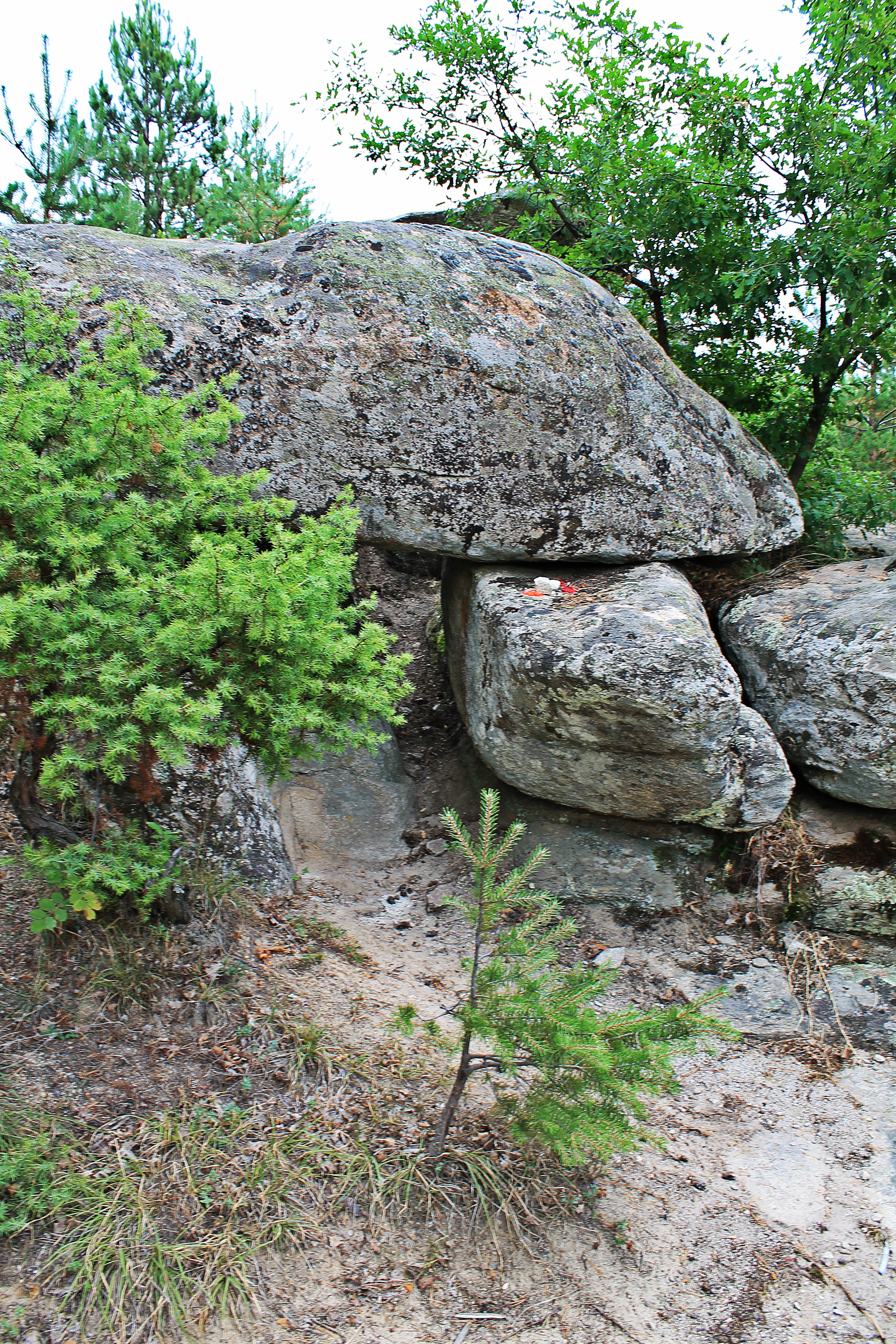 Arc 1 Dolno Dryanovo